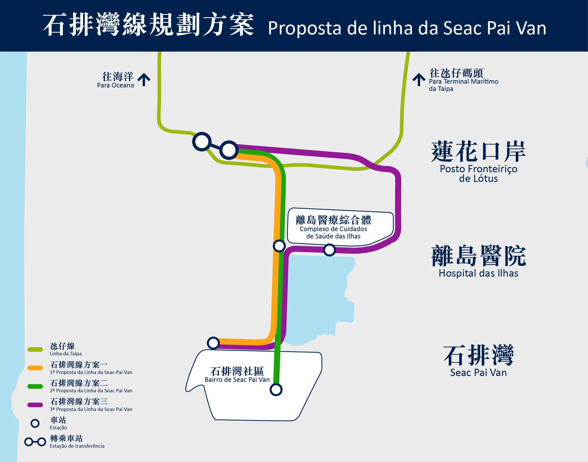 MLTR Seac Pai Van Line Planning Map